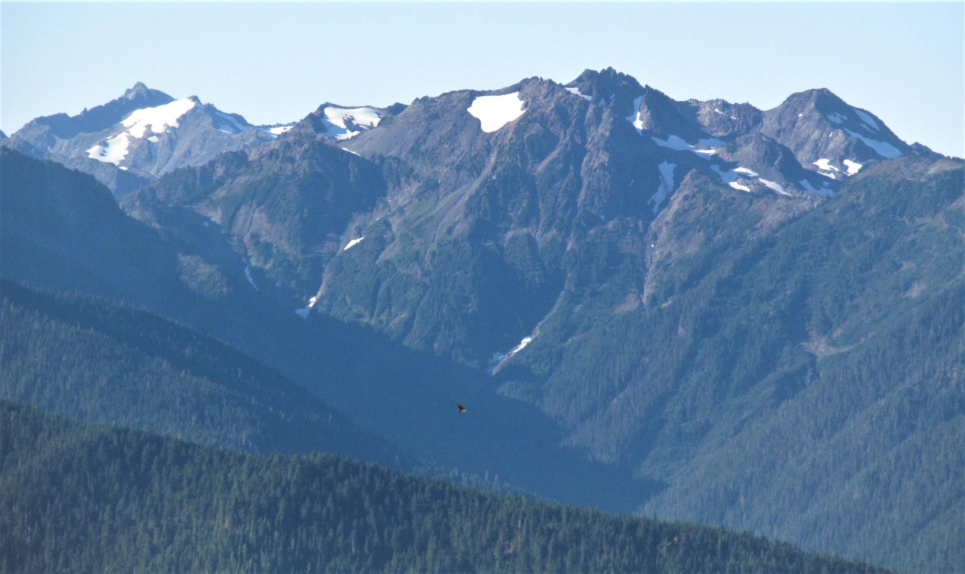 Mts. Meany, Queets, Ferry, and Pulitzer seen from Hurricane Ridge